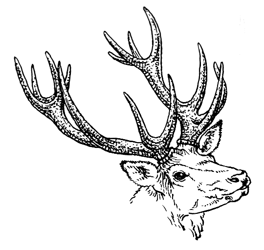 line art drawing of antlers.